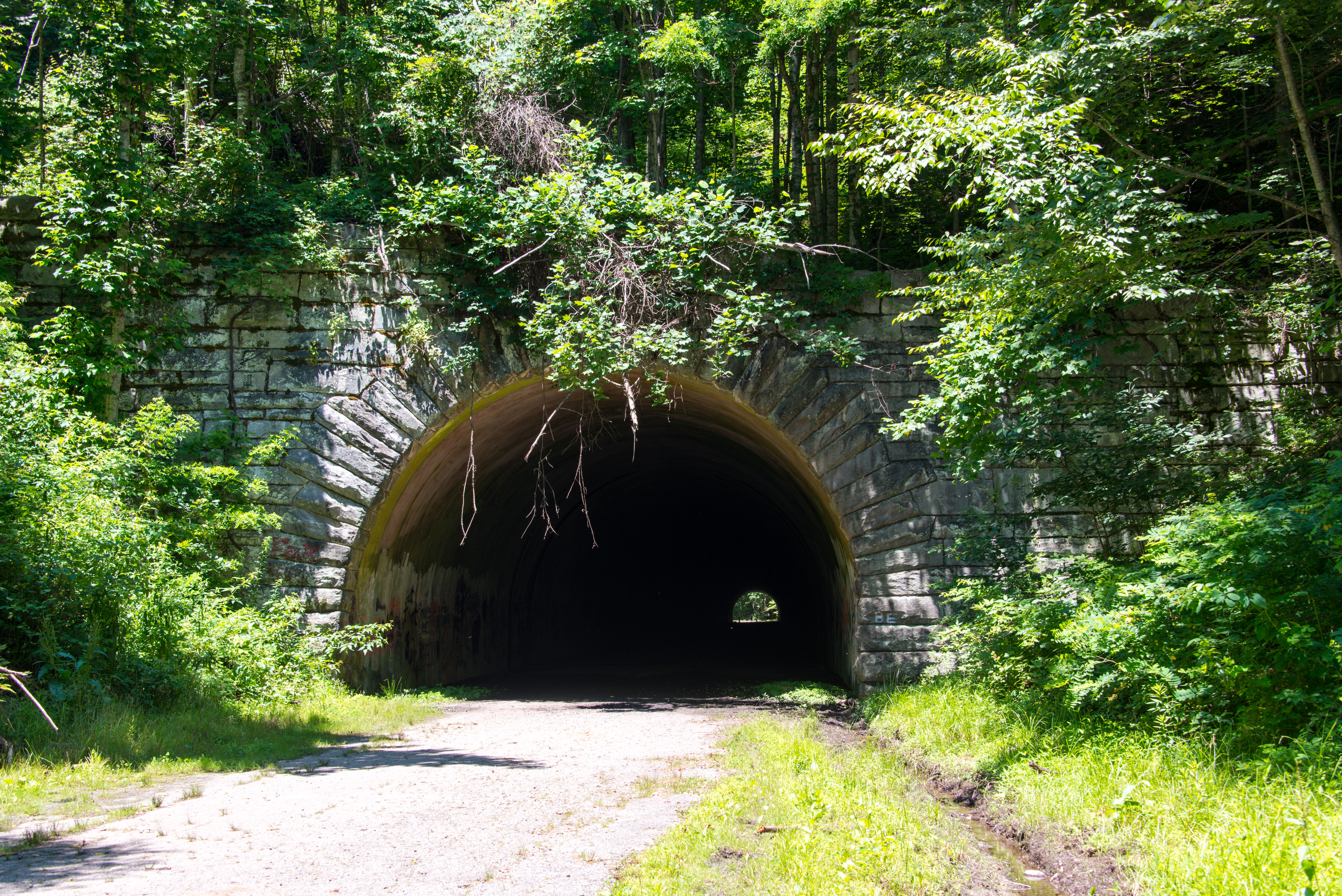 The road tunnel, completed in 1970 and paved, has never been used for actual automobiles. This view is of the front-end or east entrance of the tunnel; it goes a quarter mile under, aptly named, Tunnel Ridge, in the Great Smoky Mountains National Park.